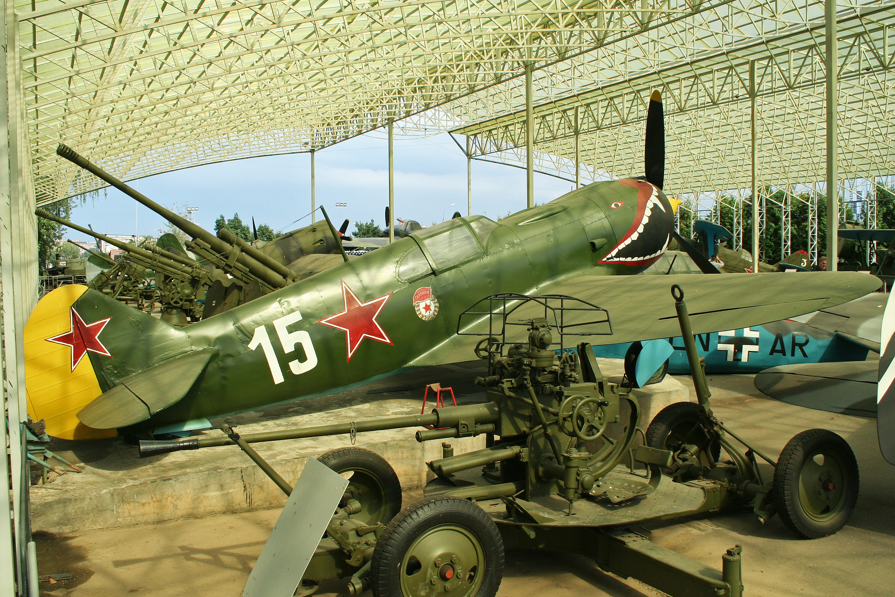 A fair mock-up of an extinct fighter type. On display at the Museum of the Great Patriotic War in Victory Park, Moscow. 11-8-2012